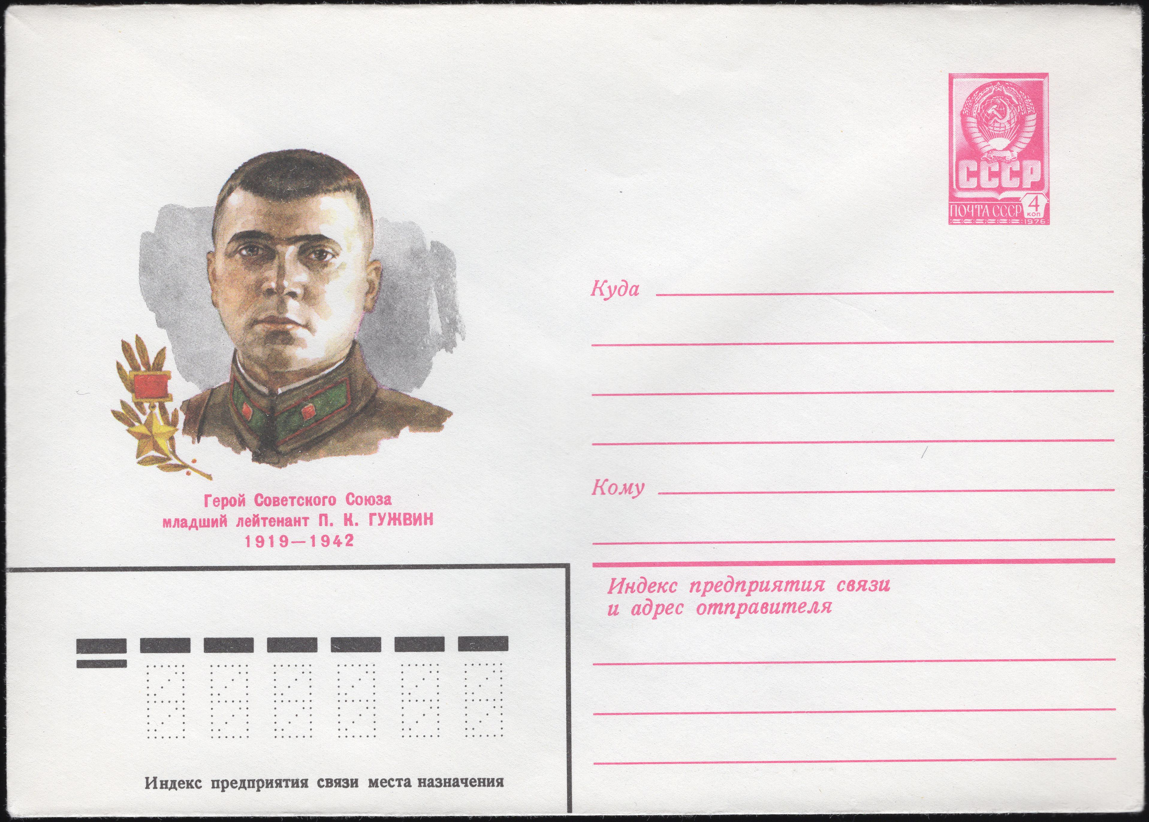 Hero of the Soviet Union Second lieutenant Pyotr Guzhvin. 1919-1942. Series: Heroes of the Soviet Union. Artist Peter Bendel.